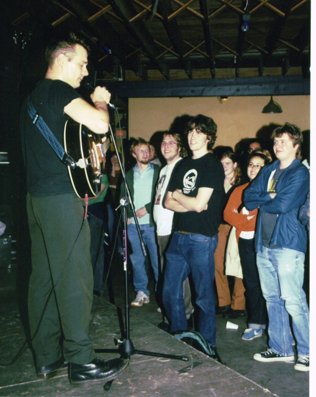 Meow Meow Portland, OR